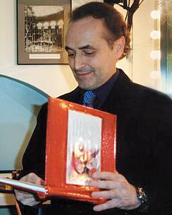 Description: José Carreras backstage at the Royal Albert Hall, London on December 11, 2001. Photographer: Jean Peccei (User:Voceditenore) Wikipedia article: José Carreras Voceditenore 10:34, 24 September 2007 (UTC)